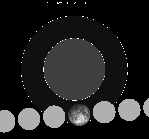 January 1955 lunar eclipse chart of moon's path through the earth's shadow. thumb